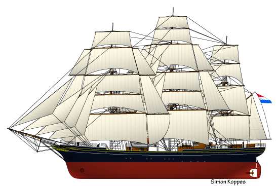 Drawing of the Dutch sailing ship Stad Amsterdam